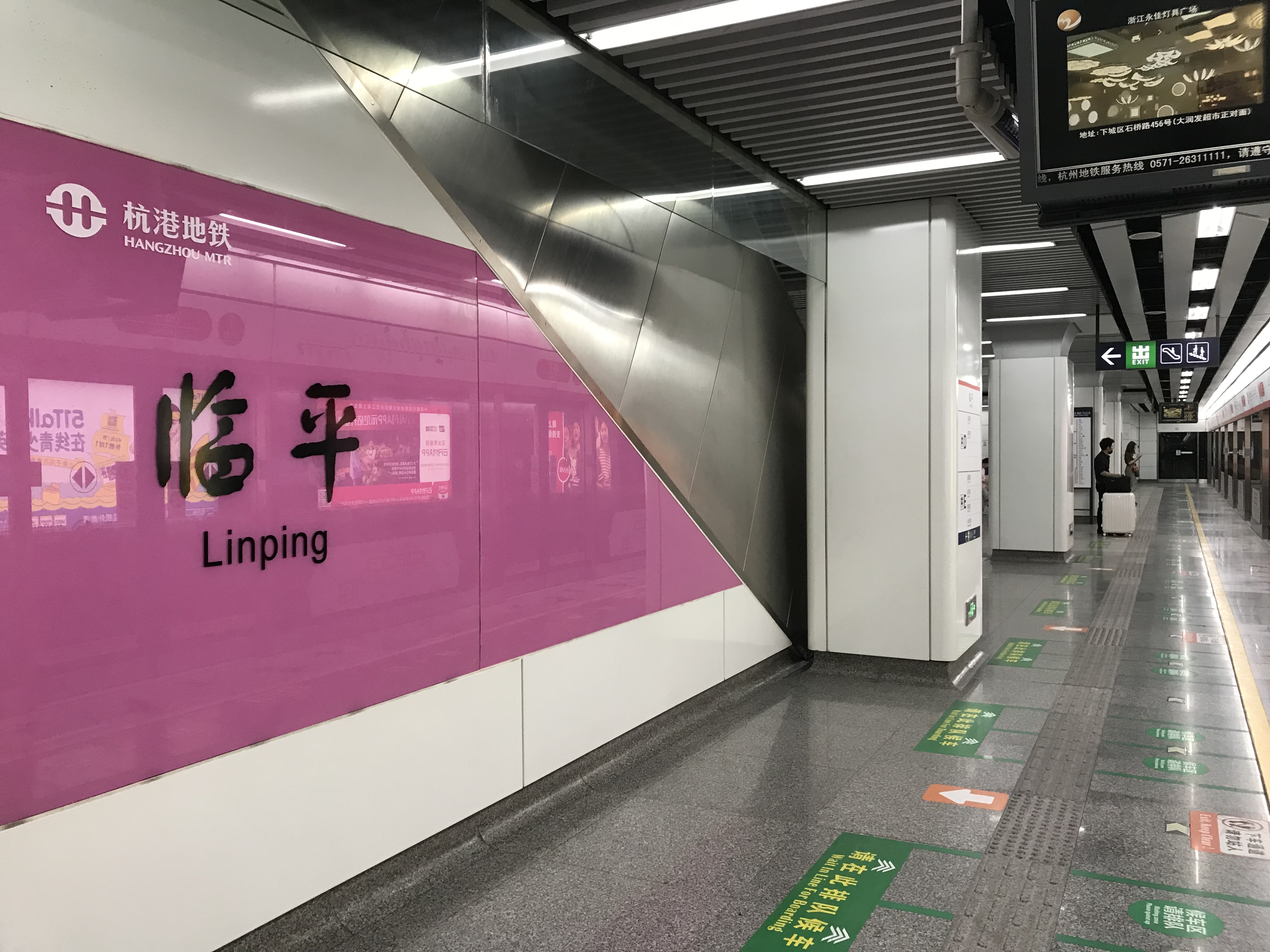 201806 Nameboard of Linping Station